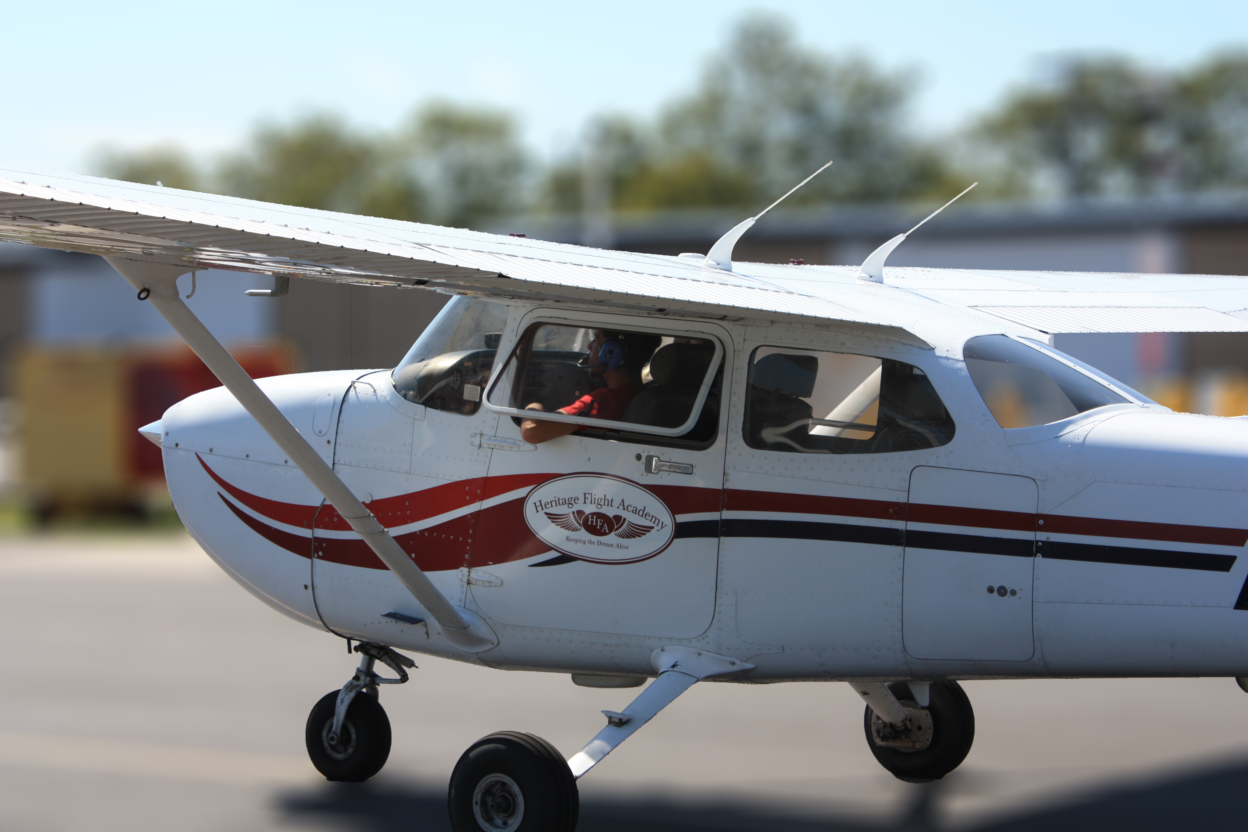 A Heritage Flight Academy Cessna 172 Skyhawk returns from a training flight on the west-side of Long Island MacArthur Airport.